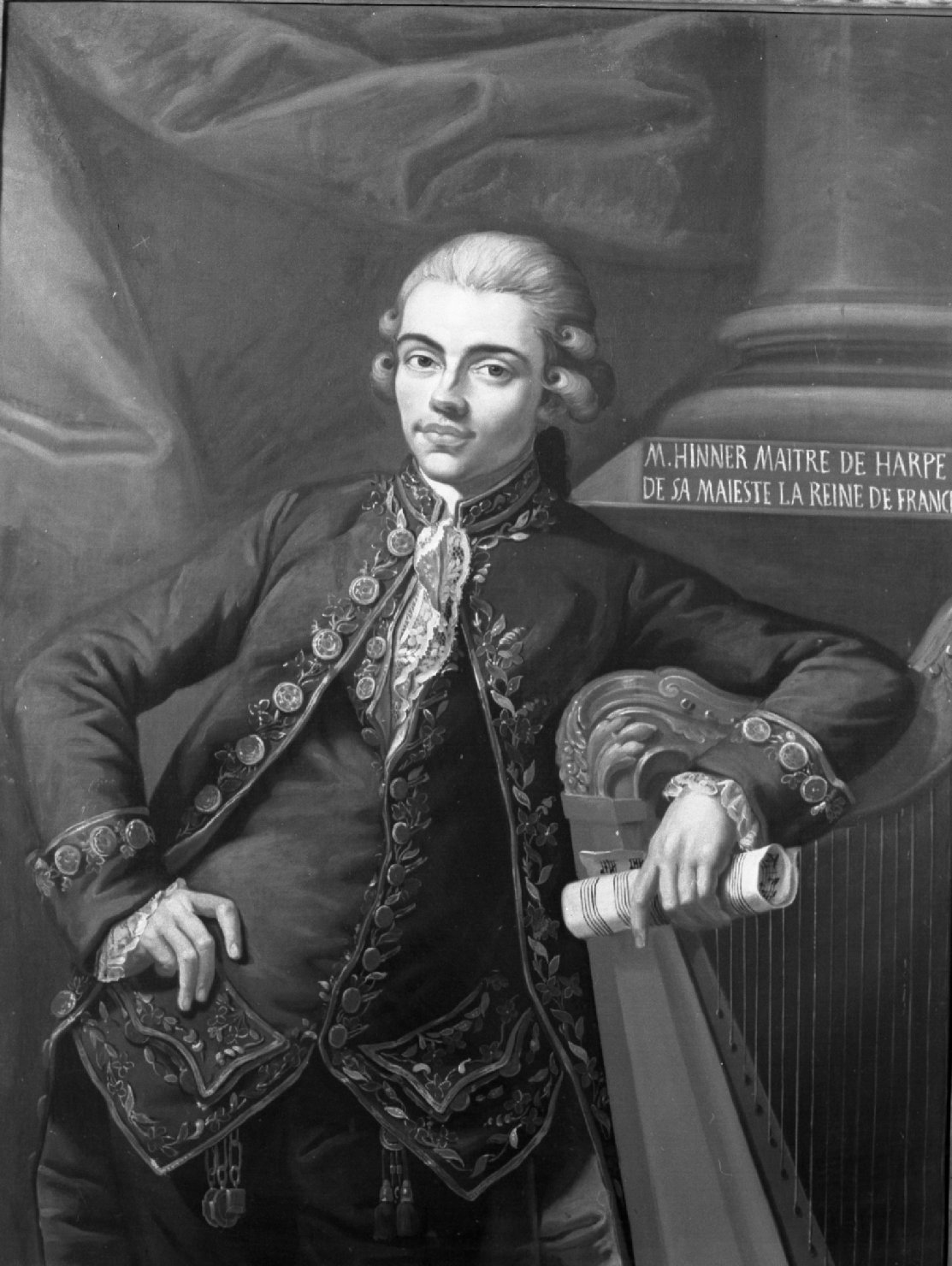 Portrait of german composer and harpist Philip Joseph Hinner (1755-1784)